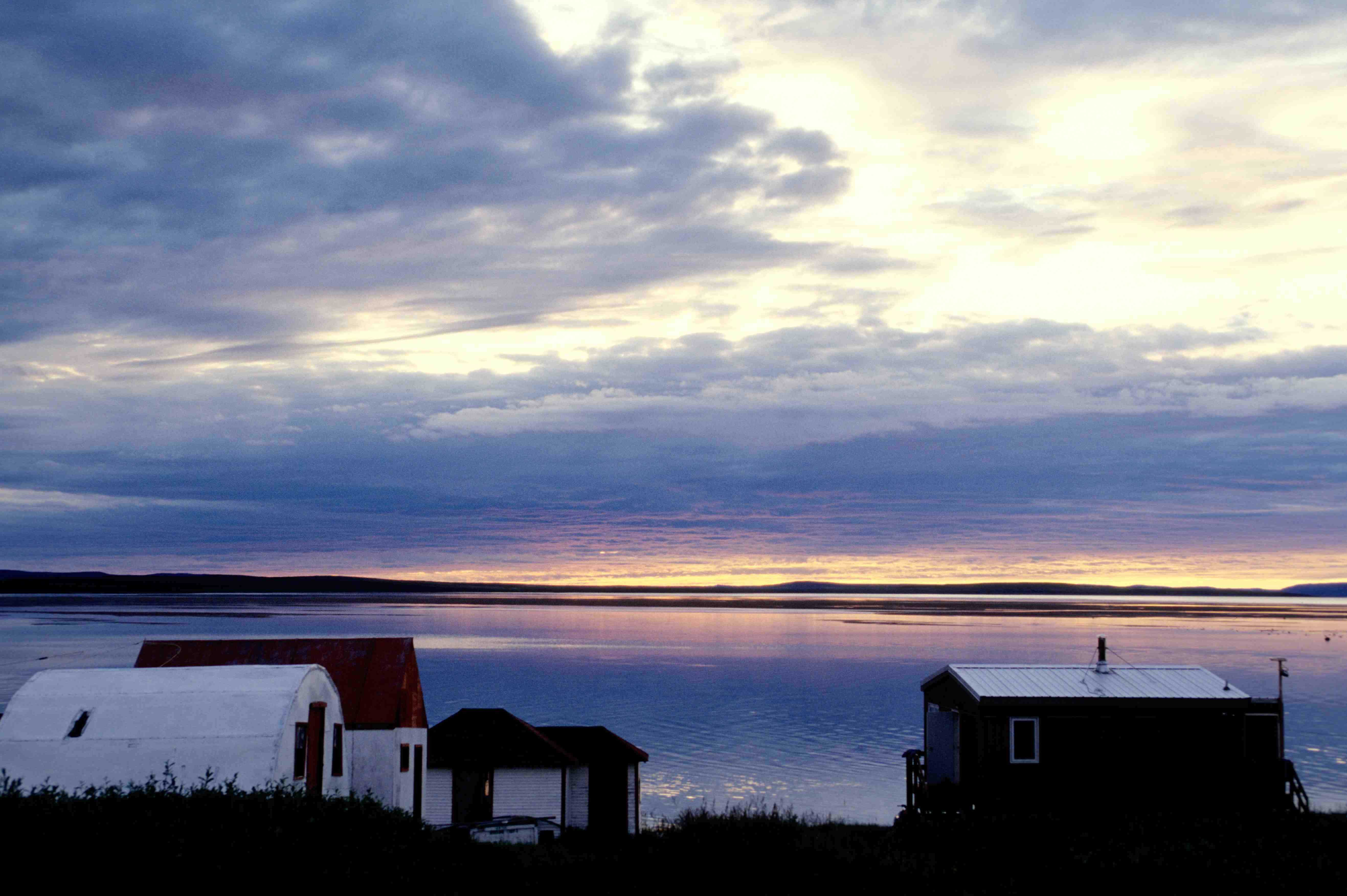 Evening at Bathurst Inlet